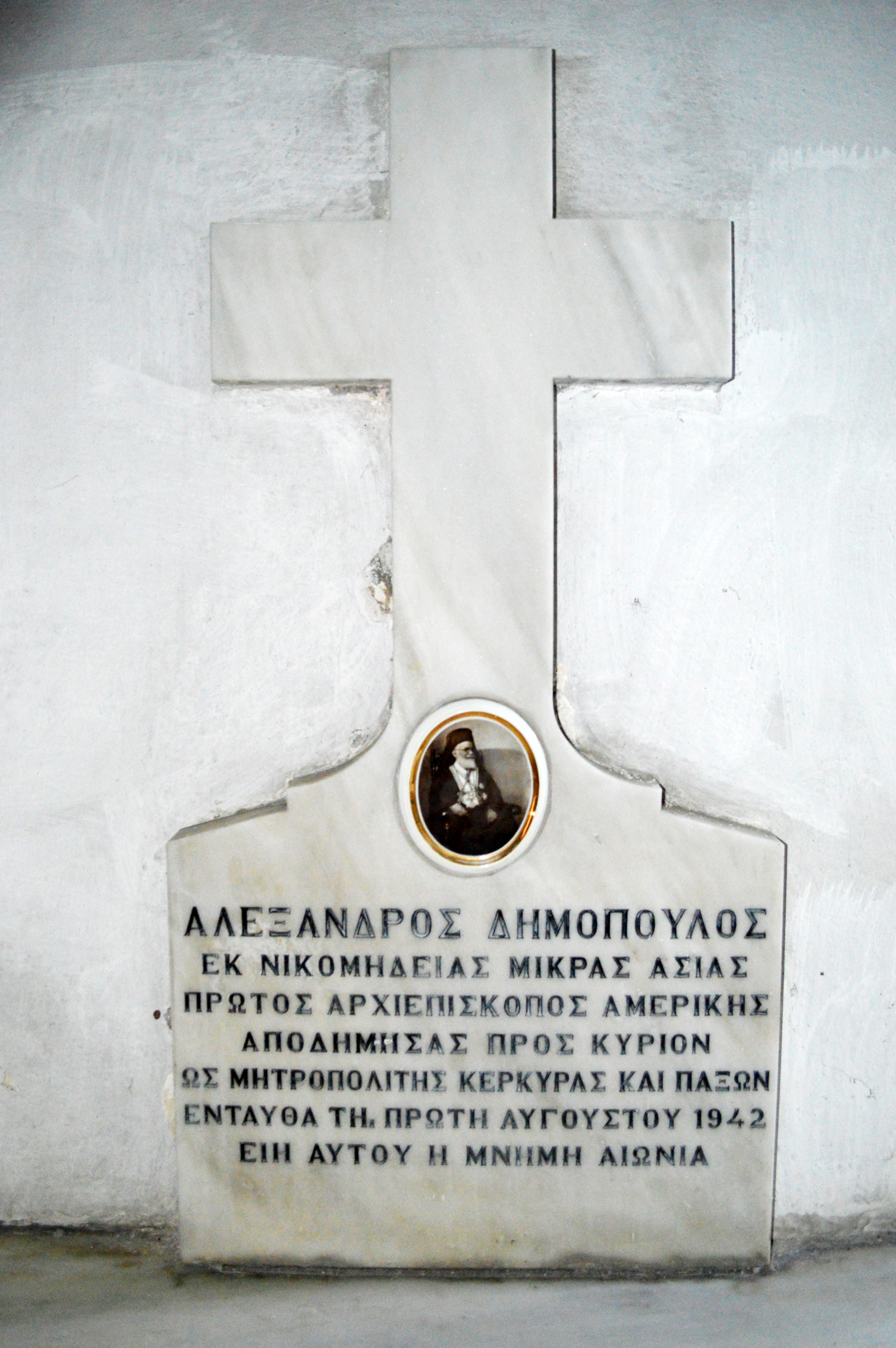 Corfu. Monastery Platitera. Tomb of Alexander (Dimopoulos) Metropolitan of Kerkyra